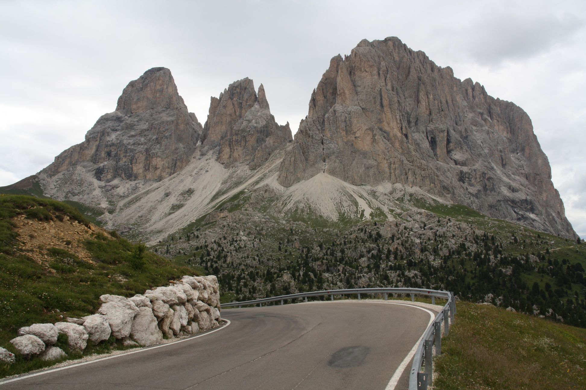 Sella Pass (Italian:Passo Sella; Ladin: Jëuf de Sela / Jouf de Sela